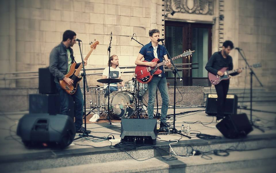 Kerach 9 during concert in Warsaw, Poland 25.06.2014